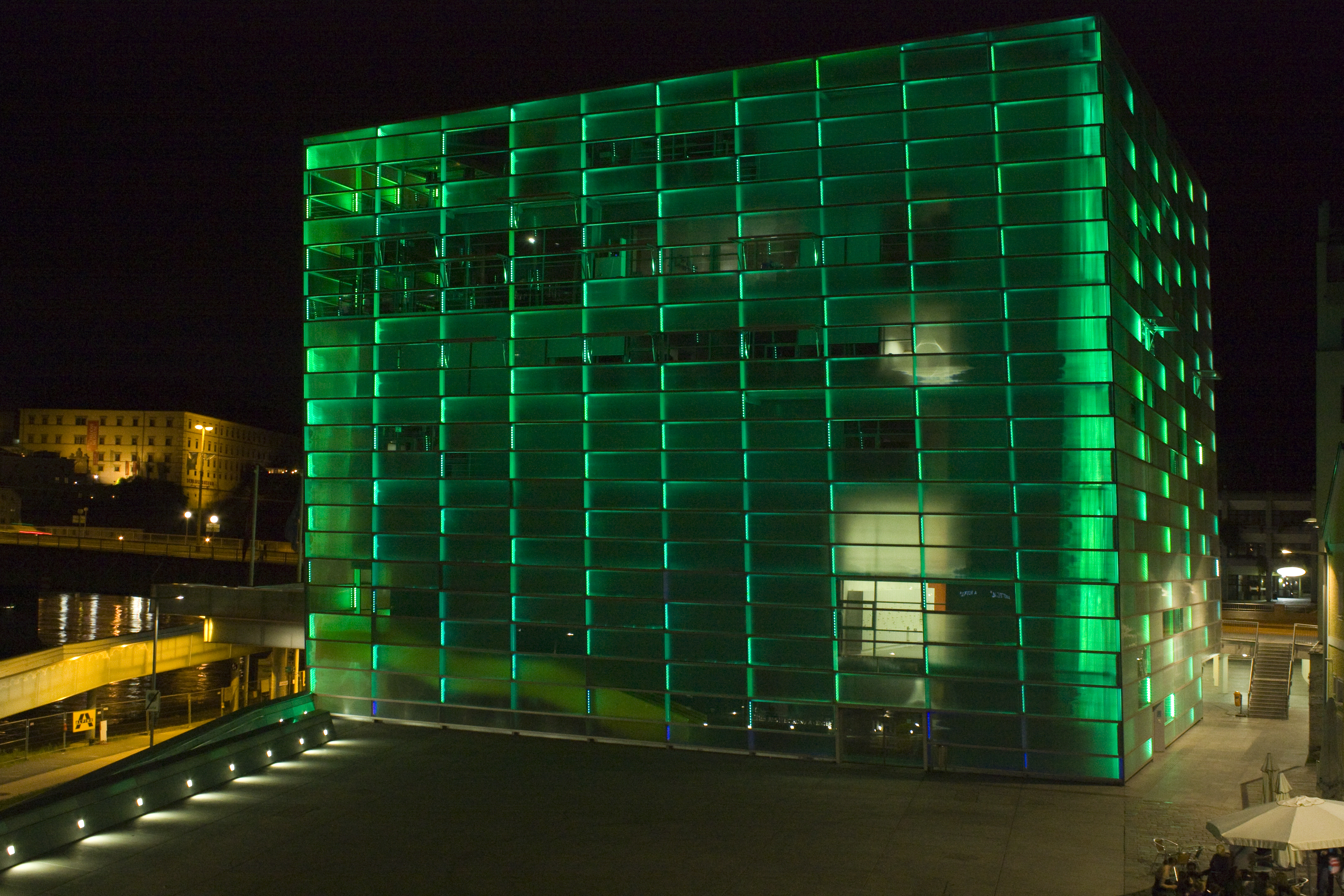 Linz, Ars Electronica Center by night